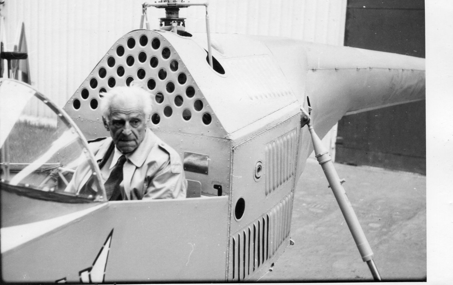 Retired polish test pilot cpt. "PLL LOT" Wiktor Pełka (1913-1996) at helicopter BŻ-1 Gil at 1989.